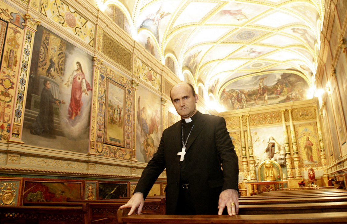 Bishop of Palencia José Ignacio Munilla Aguirre in the Chapel